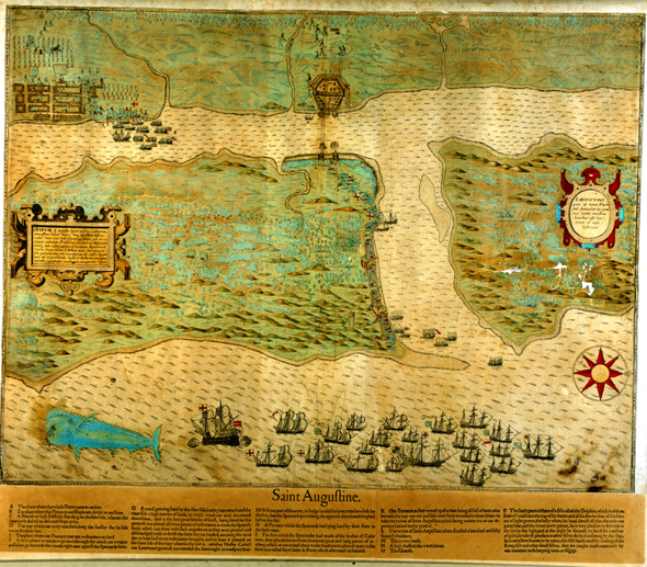 Map of St. Augustine, Florida by Baptista Boazio, 1589